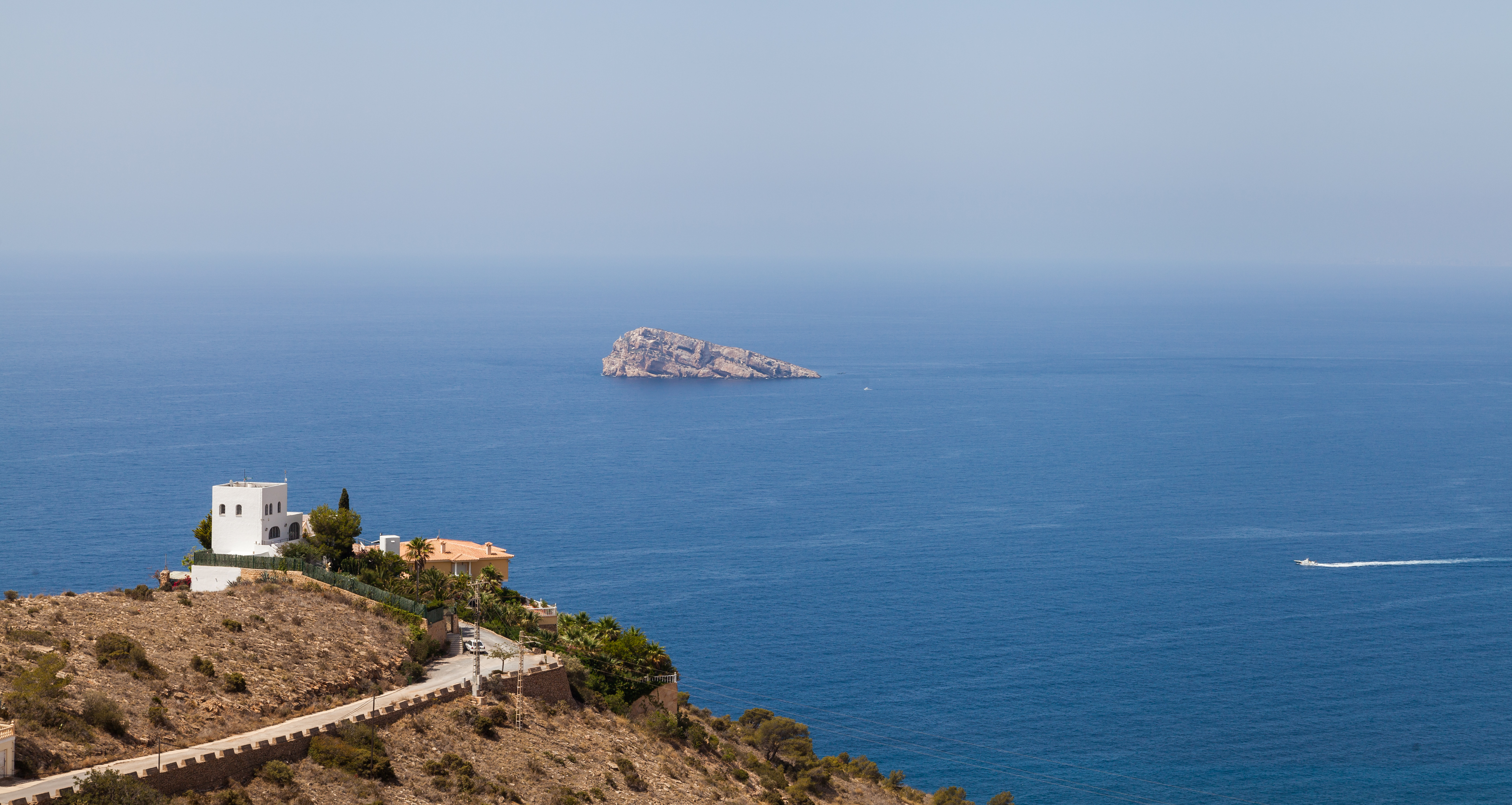 Benidorm Island, Spain